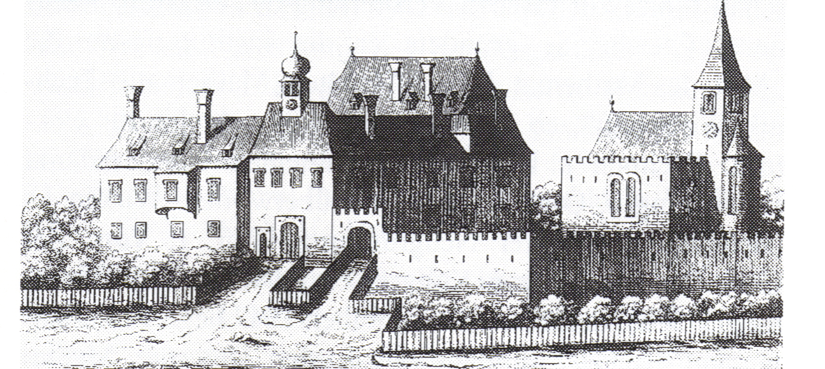 Old Schloss Inzersdorf near Vienna